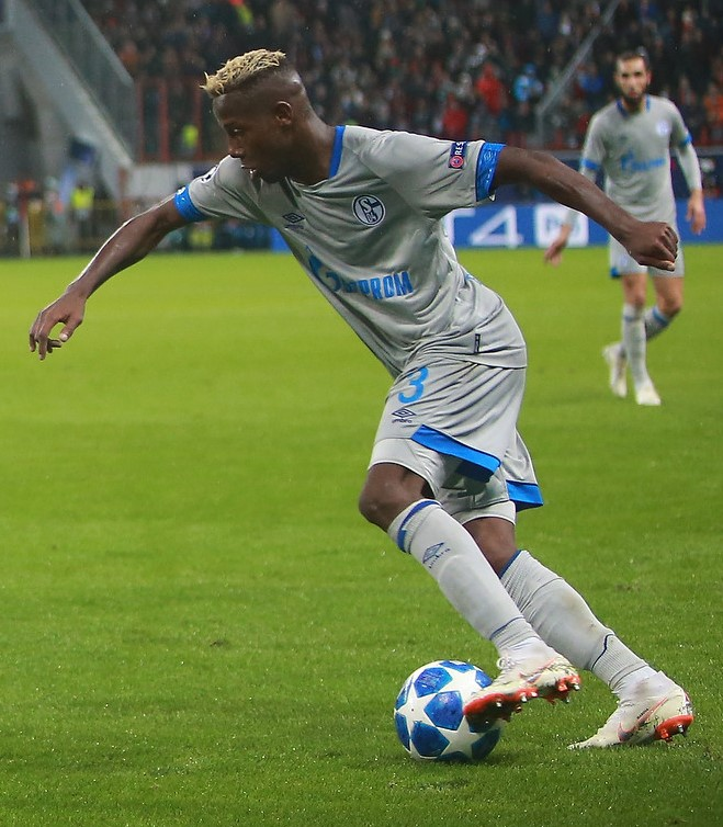 Hamza Mendyl